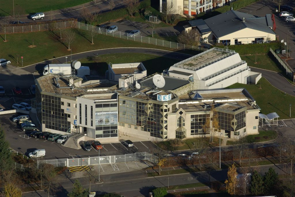 France 3 Bourgogne - site of Dijon "La Toison d'Or"